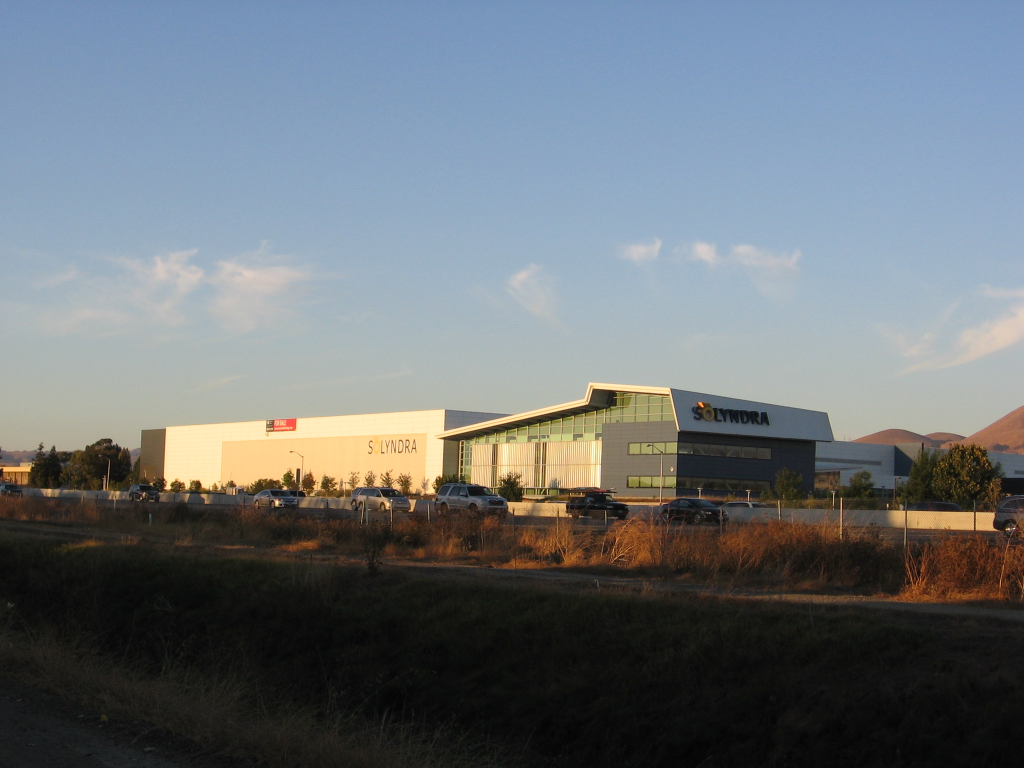 Building that used to belong to Solyndra in Fremont, California, USA. View is from Lakeview Boulevard.